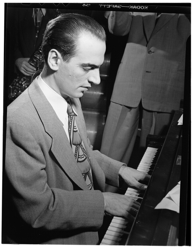 Lennie Tristano, ca. August 1947. Photography by William P. Gottlieb.